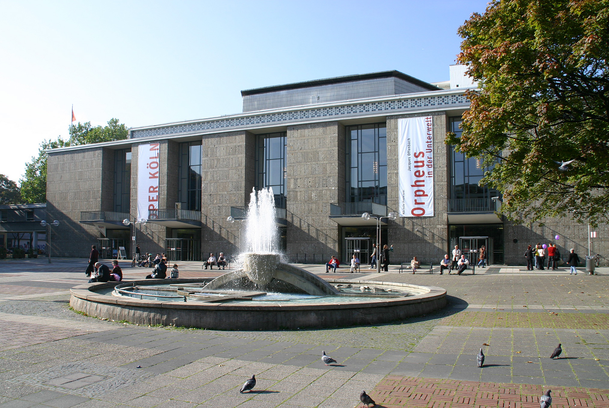 Cologne Opera